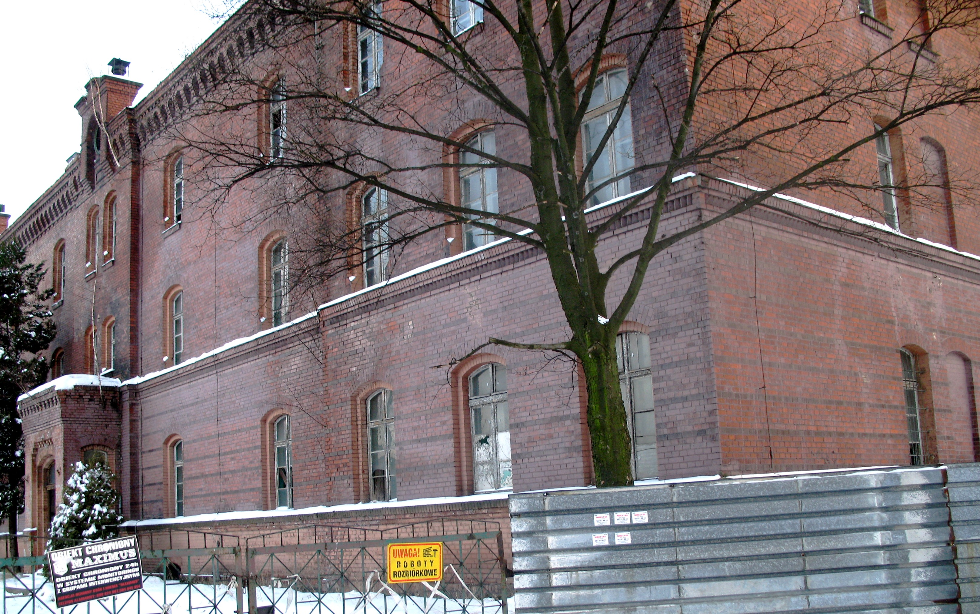 Abandoned barracks in „Gliwice“ former„ Gleiwitz“ (PL)